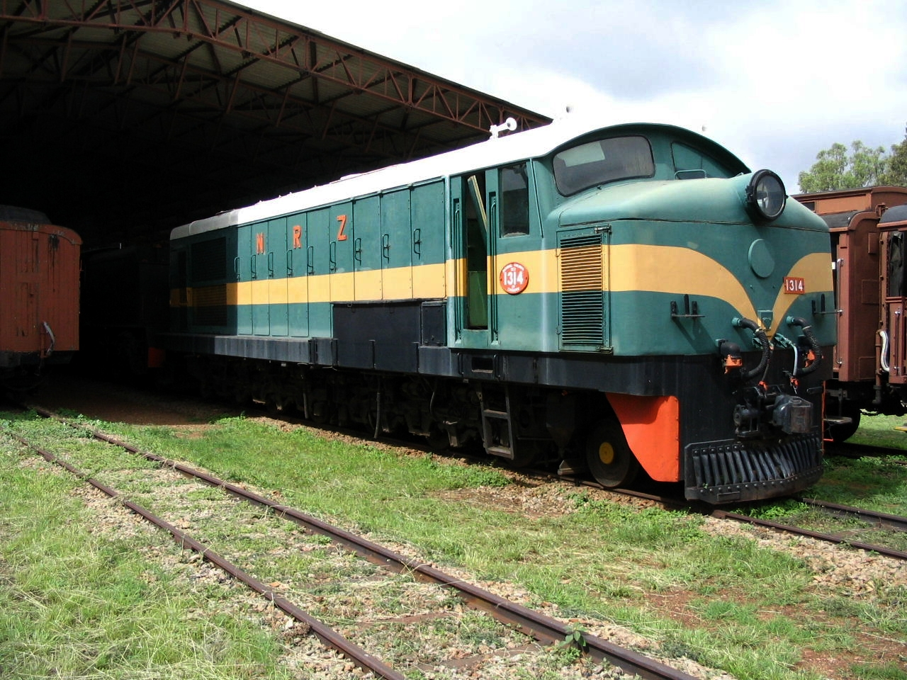 Class DE3 Nbr 1314 .... English Electric 1962